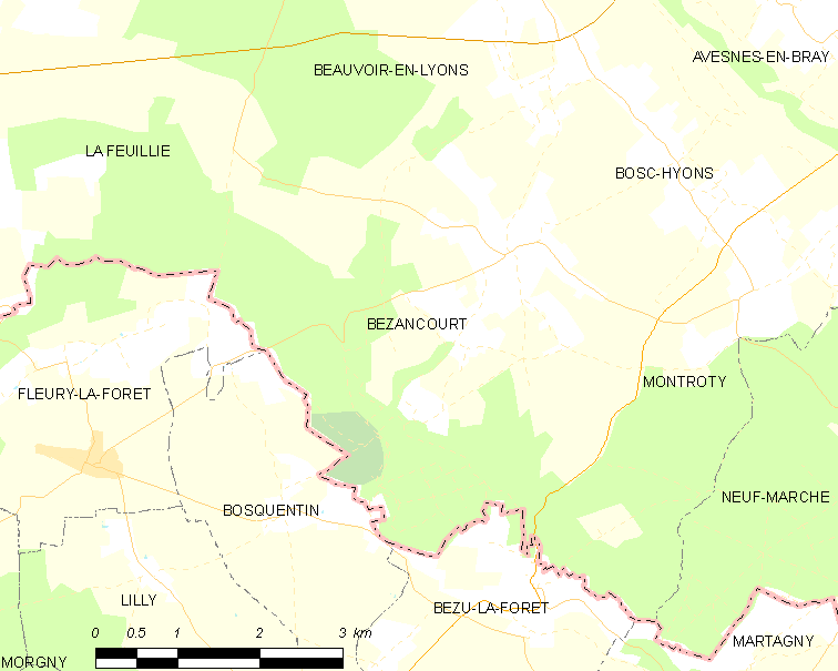 Map of French municipality Bézancourt